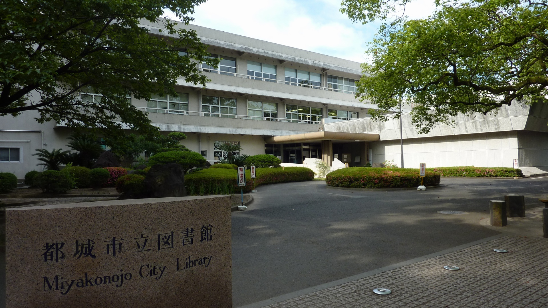 Miyakonojo City Library (Miyakonojo City, Miyazaki Prefecture, Japan)